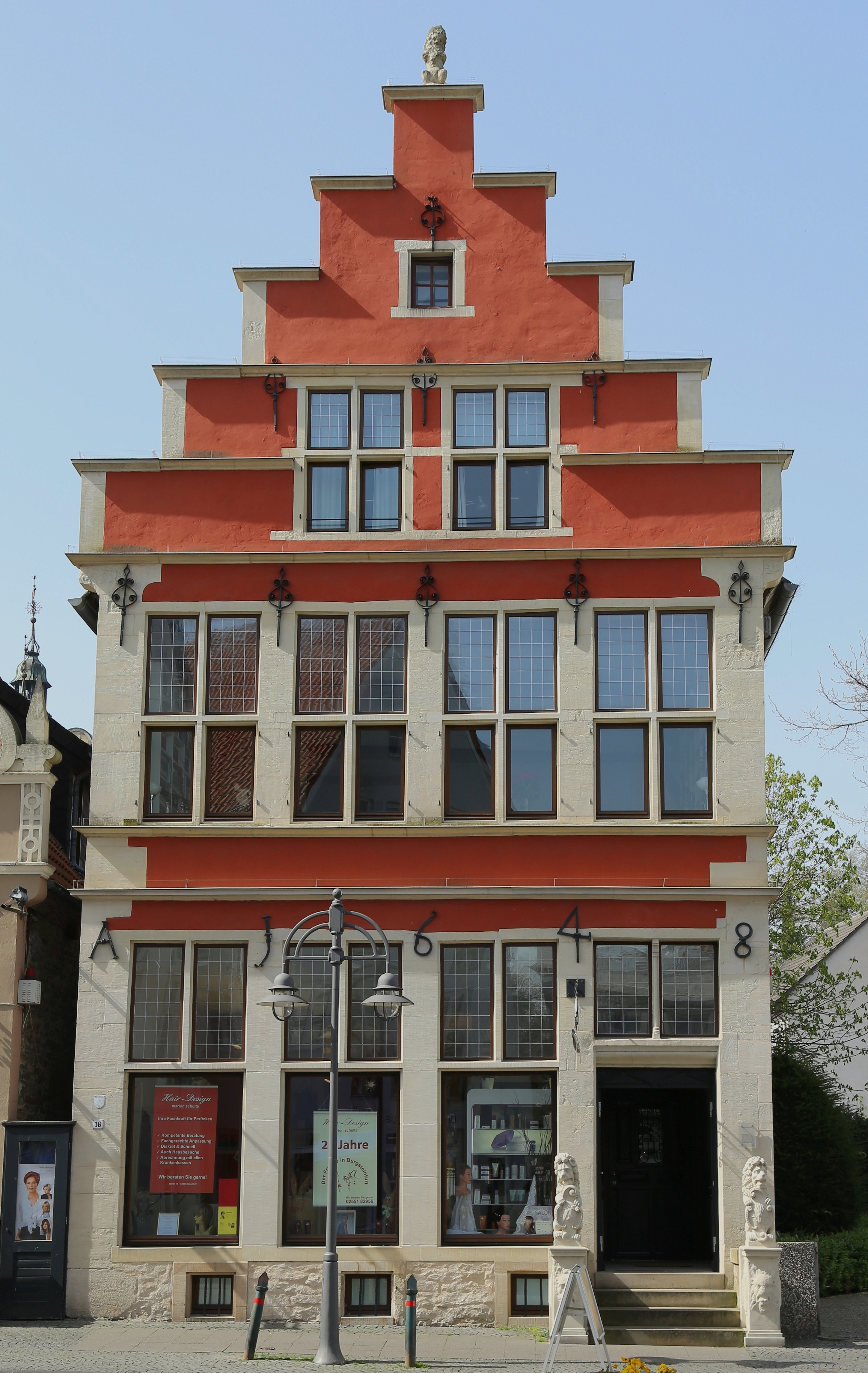 Kestering House (Beamtenhaus Kestering), 16 Market (Markt 16) in Steinfurt-Burgsteinfurt, Kreis Steinfurt, North Rhine-Westphalia, Germany.